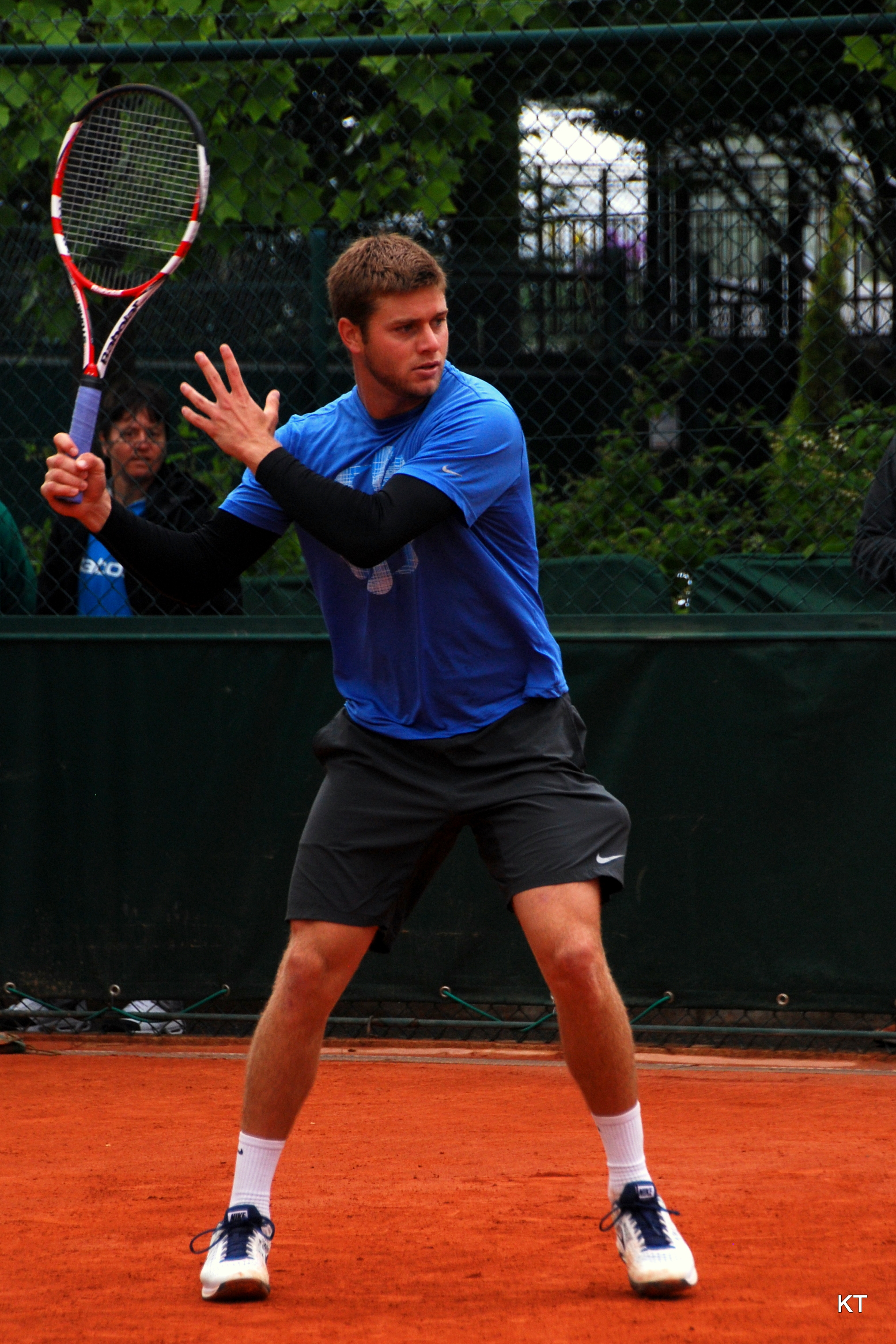 On the practice court. Day 6 of Roland Garros 2013.